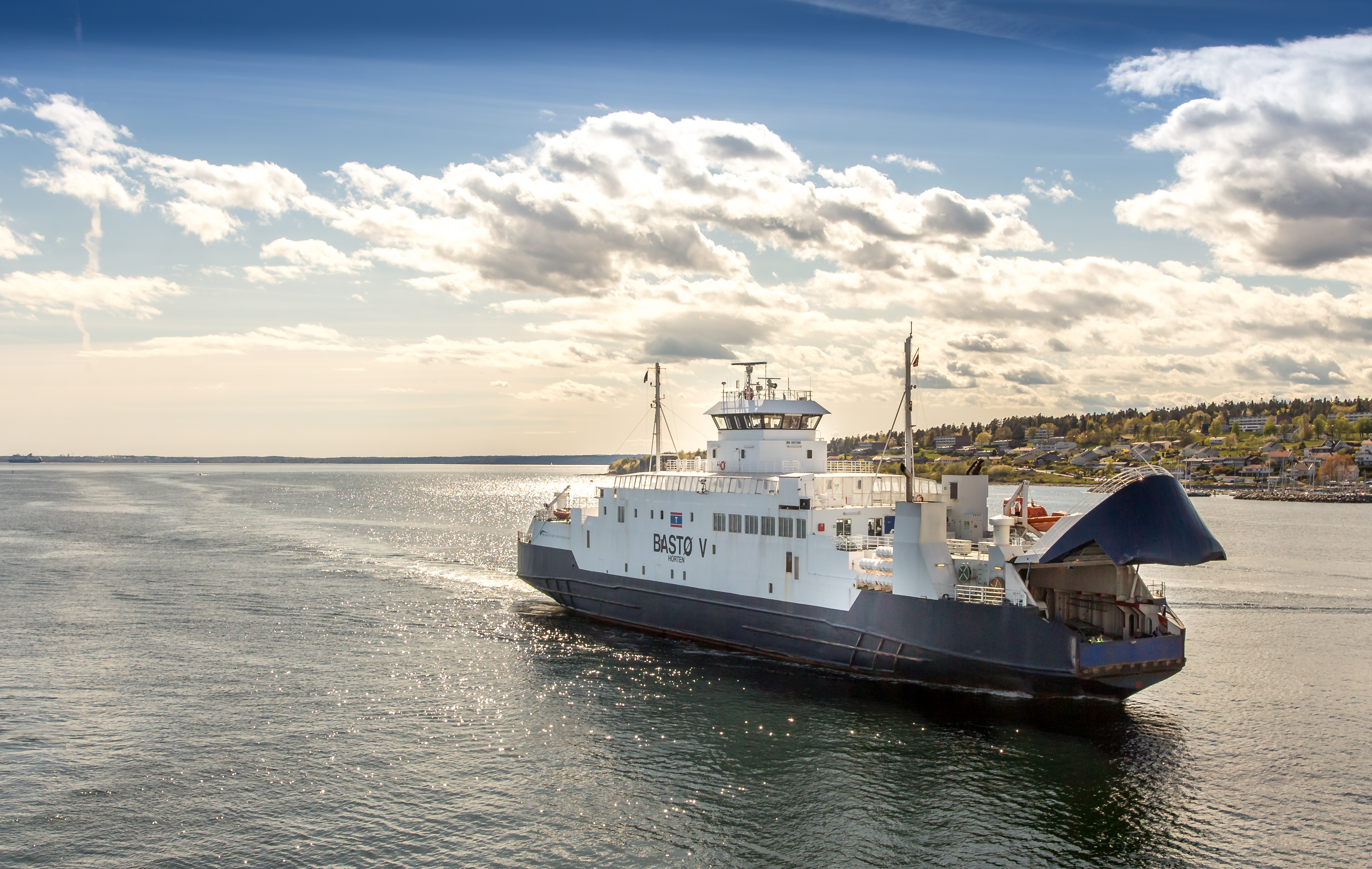 Moss, Norway